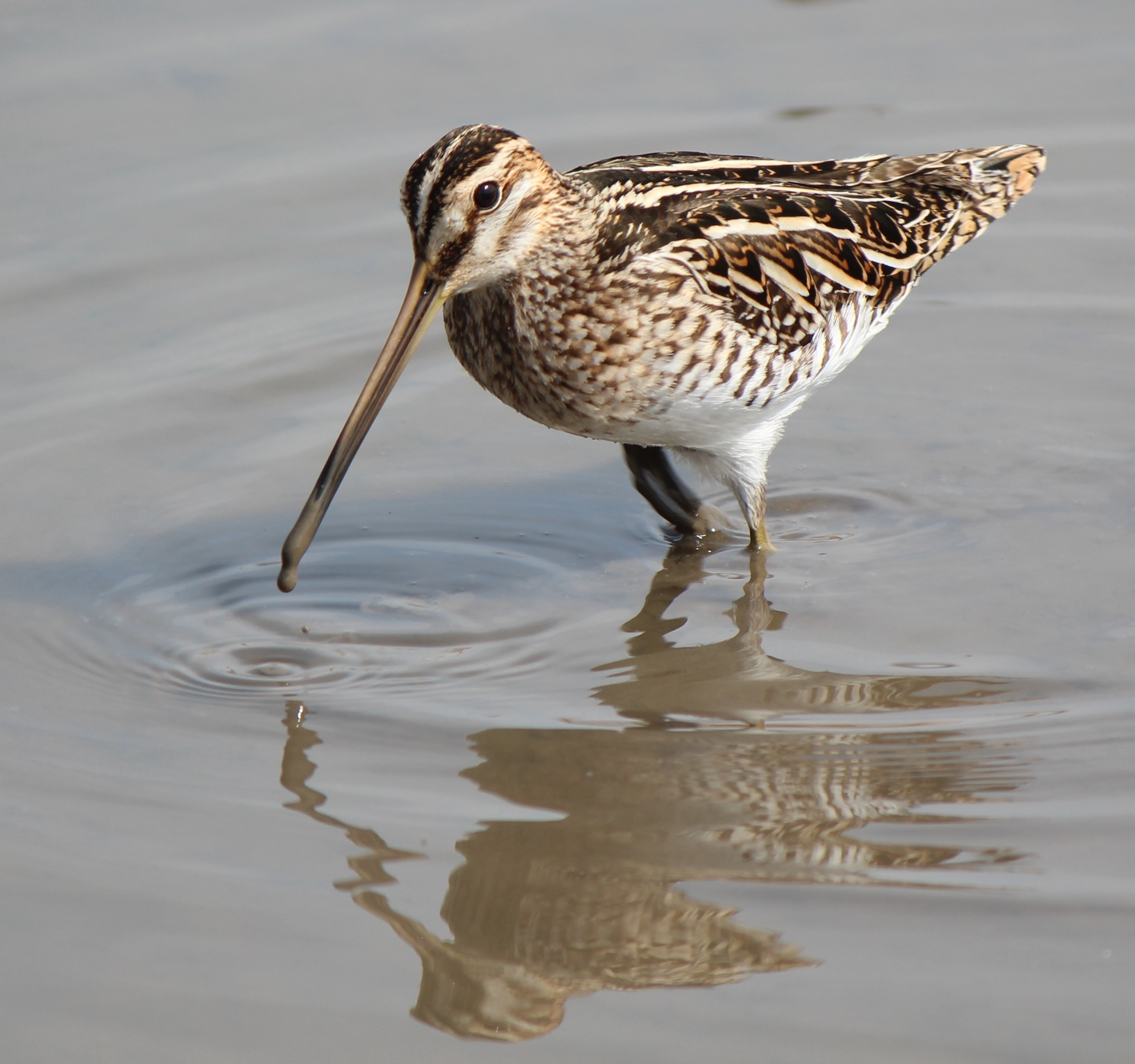 Gallinago gallinago (Common snipe) in Japan